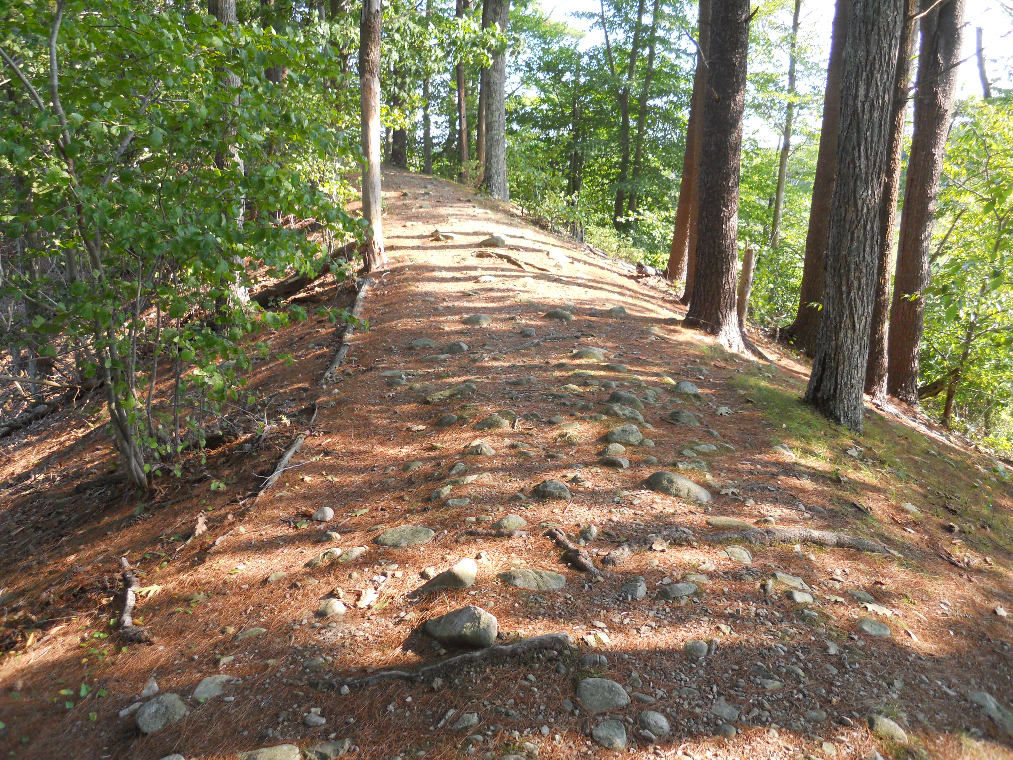 This trail runs along the top of an esker bordering Hassocky Meadow, a wet marsh separating Averill's Island. The water is actually an impoundment behind an earthen dam between Averill's Island and the mainland.